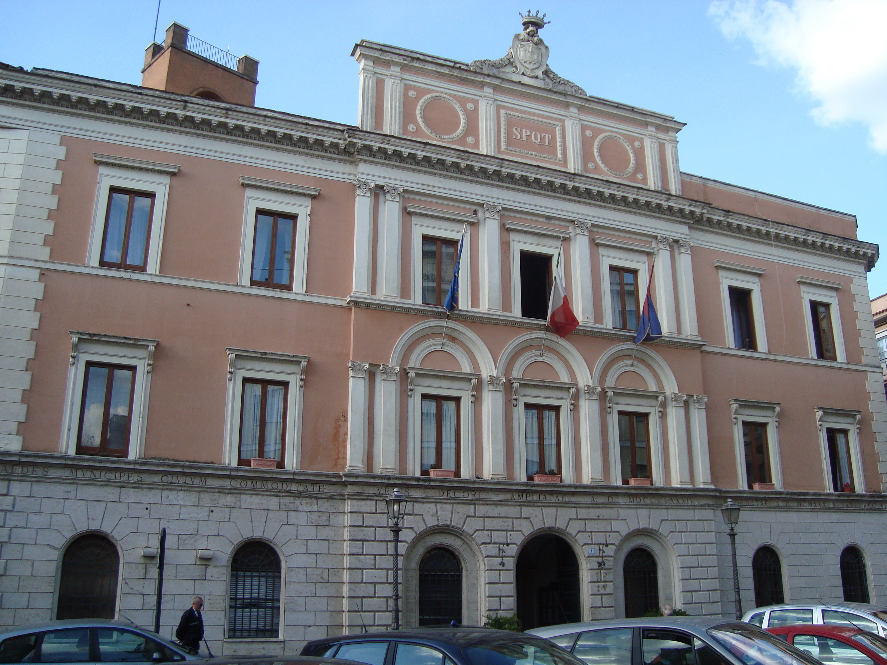 The city hall of Tivoli known as Palazzo San Bernardino